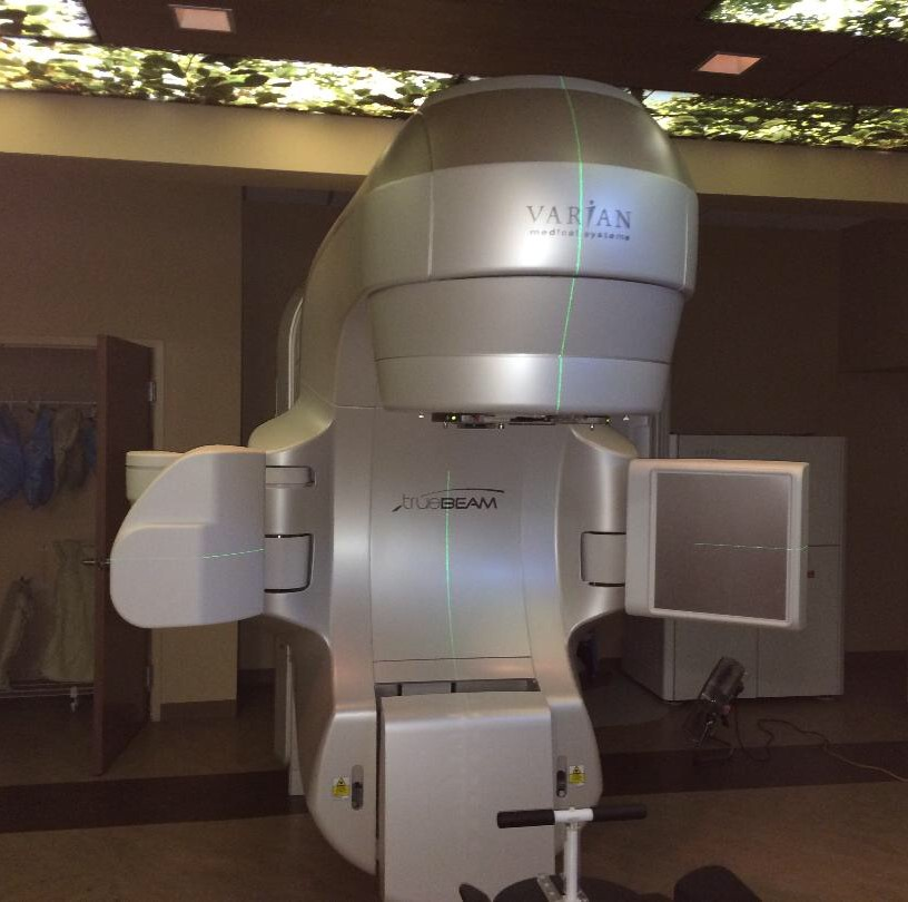 Varian's TrueBeam Radiotherapy machine.